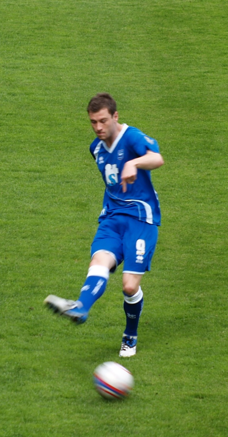 Photograph of Ashley Barnes